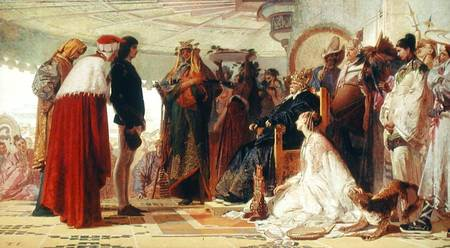 Tranquillo da cremona, Marco Polo alla Corte del Gran Khan, 1863